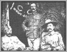 Robert Baden-Powell, 1st Baron Baden-Powell (right) and Frederick Russell Burnham (seated) with Boy Scout flag in background